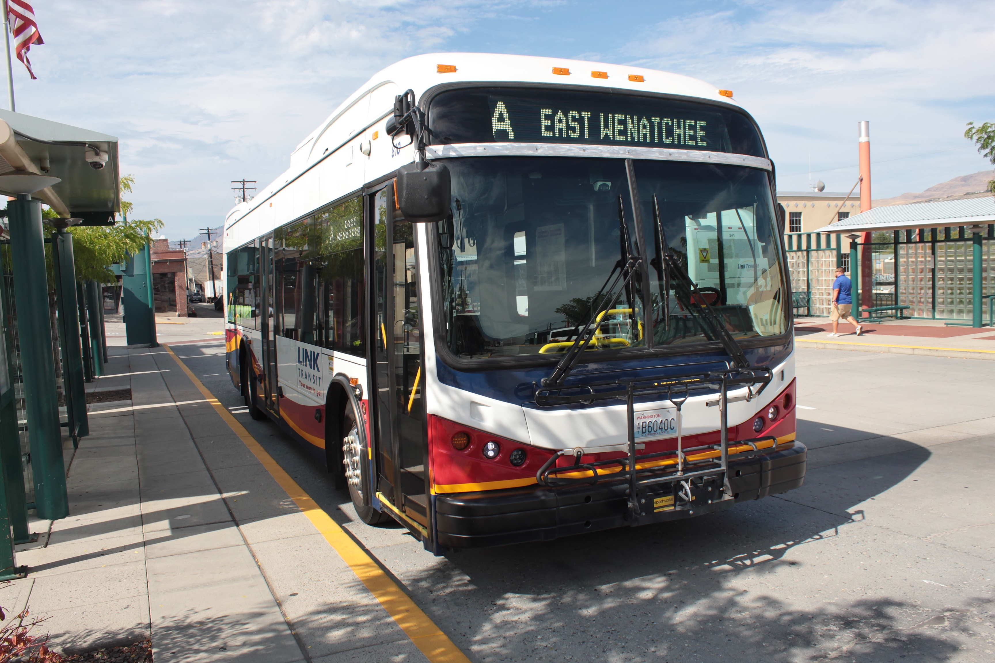 An electric bus operated by Link Transit, seen at Columbia Station in downtown Wenatchee, Washington.